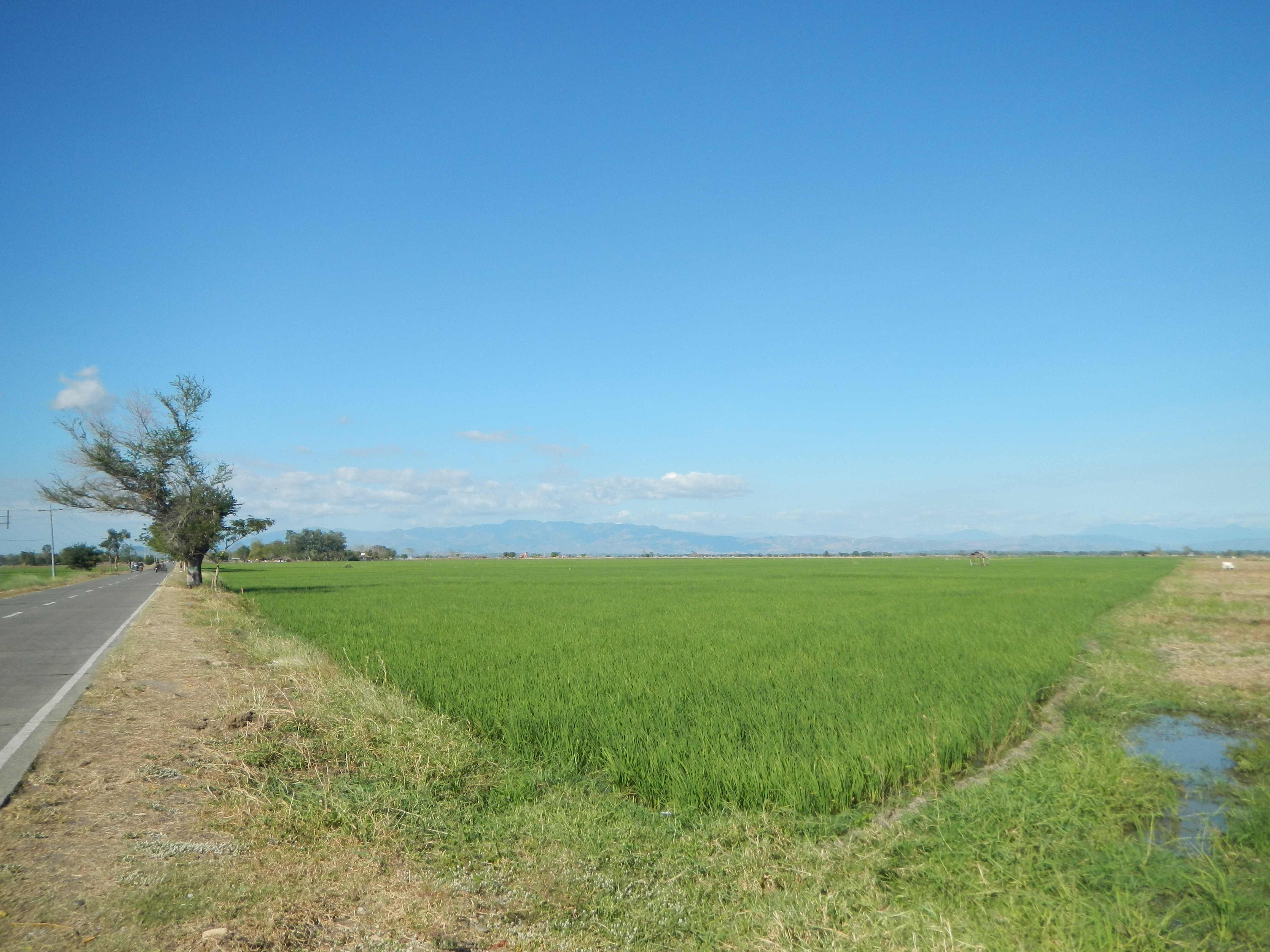 Guimba, Nueva Ecija[1] is a first class municipality in the province of Nueva Ecija, Philippines.[2][3] Coordinates: 15°40'21"N 120°45'8"E[4][5][6]Triala House is located in Guimba, Nueva Ecija, Philippines (owned by the Novo Ecijano revolutionary leader Gen. Manuel Tinio, built during the early commonwealth period, features orminate designs, turn of the century Furniture and a life size image of the esteemed Novo Ecijano Don Kapitan Berong in stained glass).[7][8]